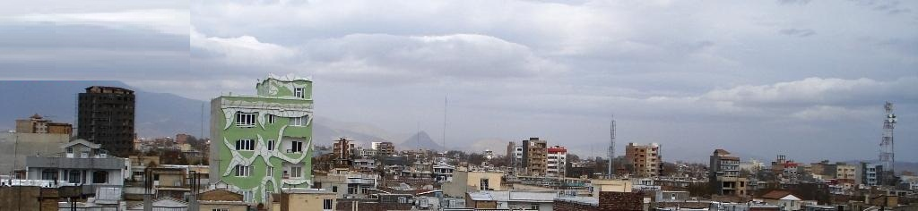 khoy view